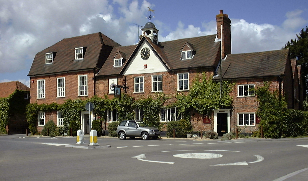 The Hind's Head Inn in Aldermaston, England. The picture was taken at approximately 11:30 UTC under conditions of broken cloud. The equipment used was a Toshiba PDR-M1 digital camera in Auto mode. The original picture was cropped from the bottom to remove excess foreground.